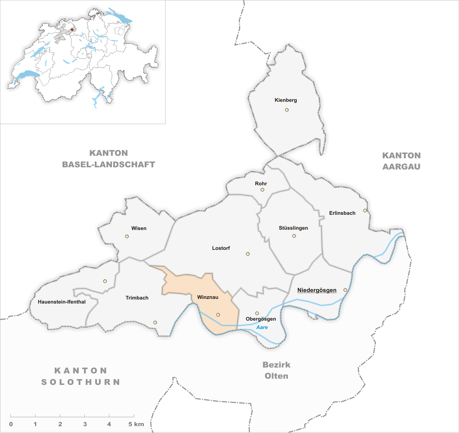 Municipality Winznau